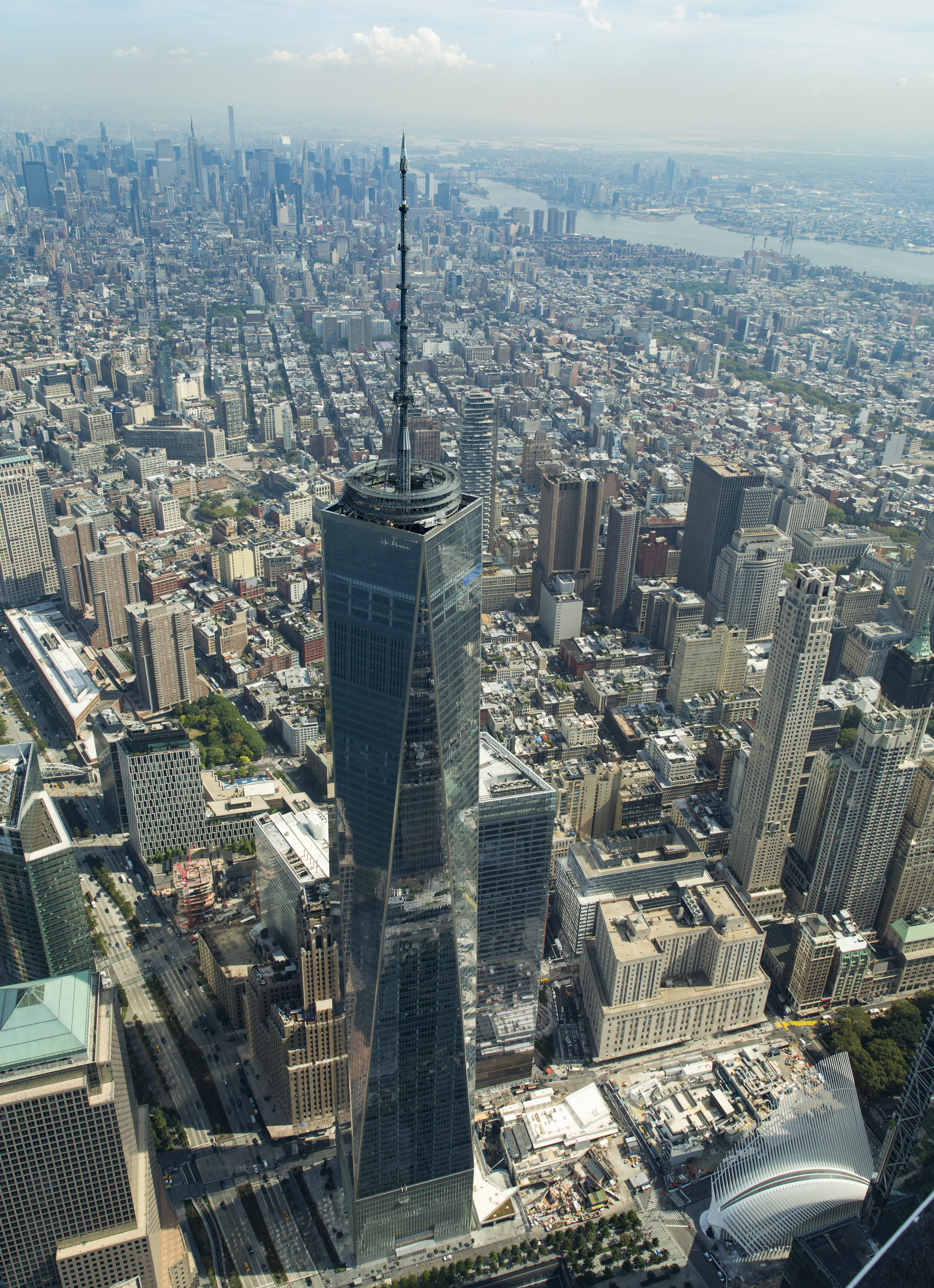 Customs and Border Protection return to the Freedom Tower at the World Trade Center in New York City for the first time since the 9/11 terrorist attacks. Photos by James Tourtellotte